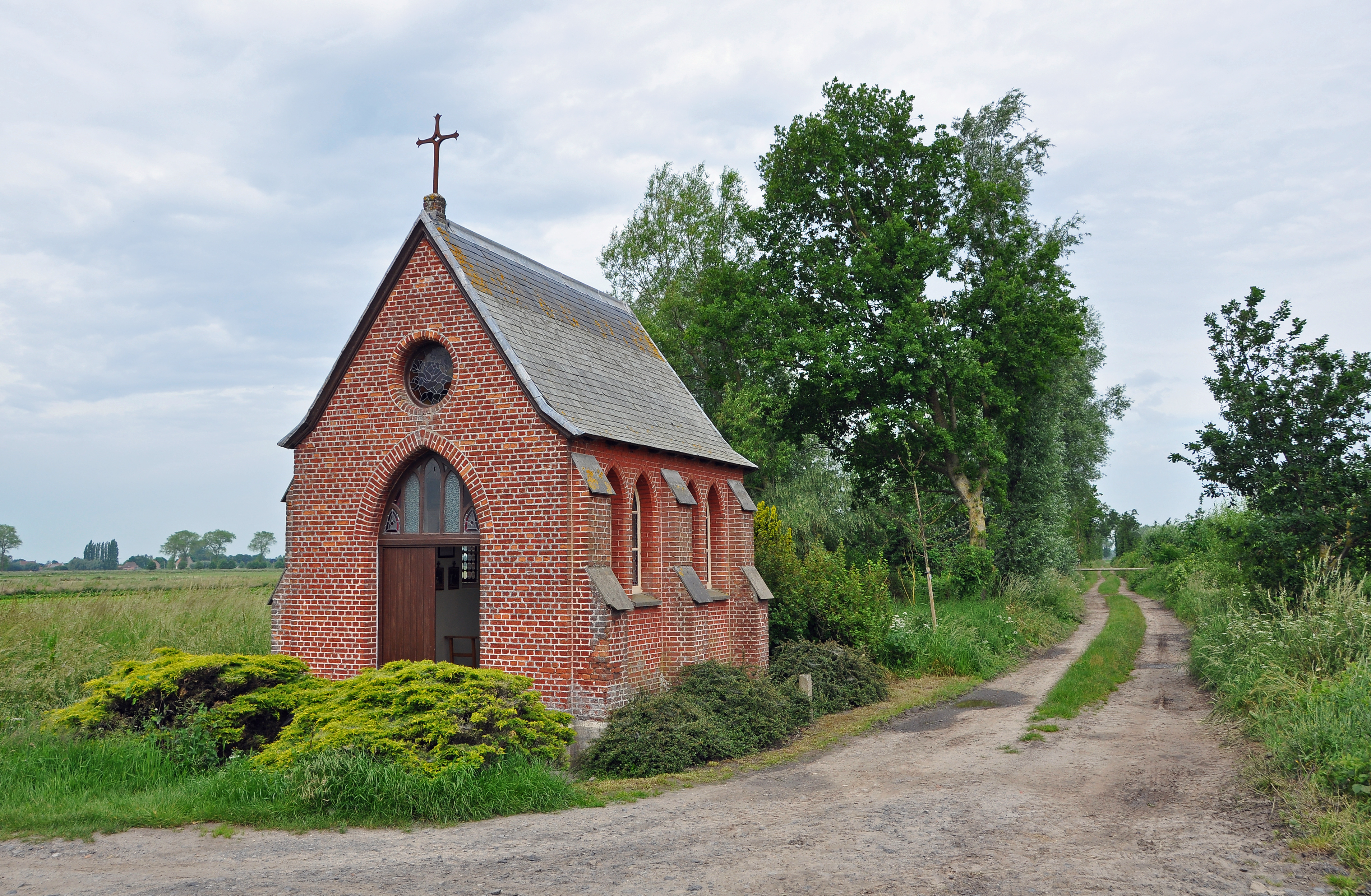 Eernegem (Ichtegem, Belgium): Vanderheyde chapel